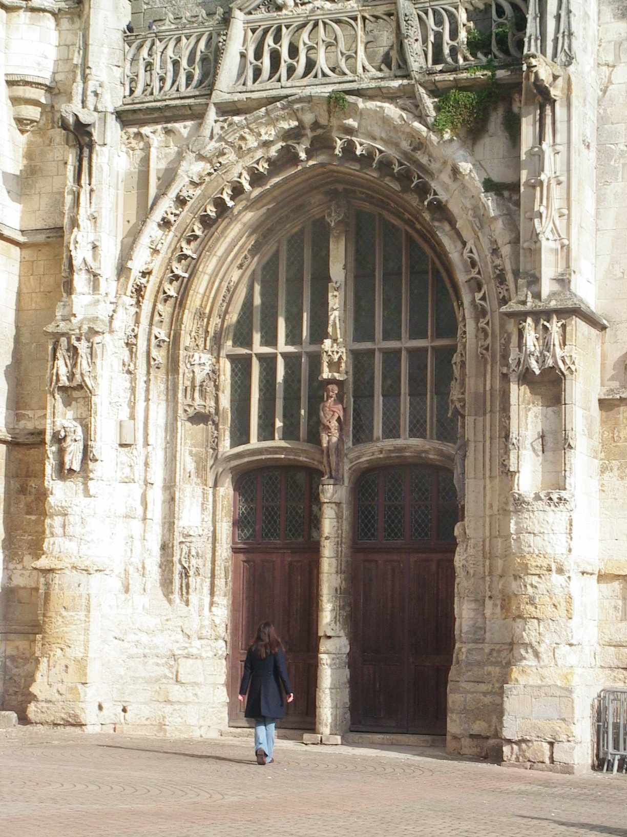 the main door of the church of Caix, a small village in France, Picardy.